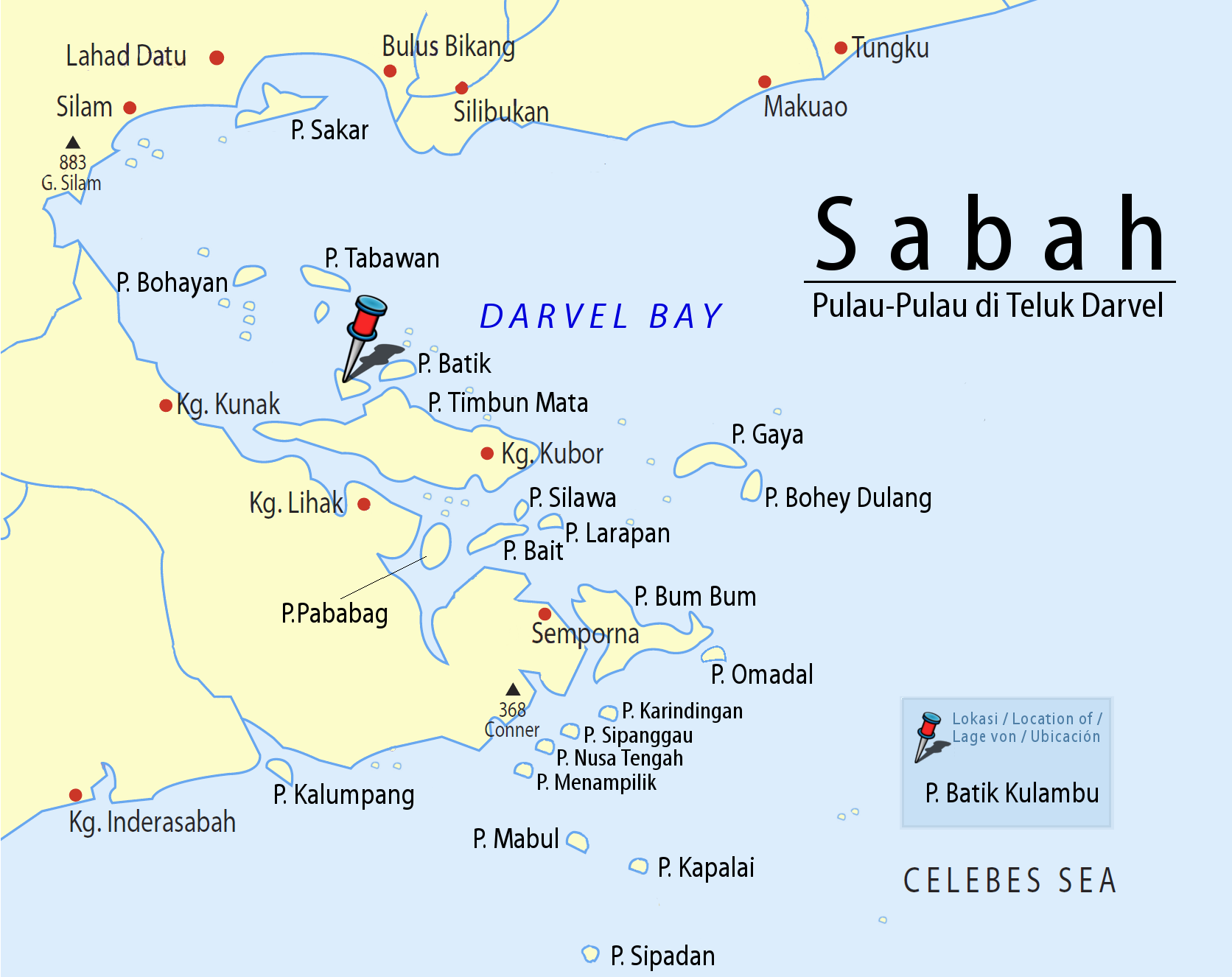 Sabah: Scheme of Islands in the Darvel Bay with Pushpin Marker for Pulau Batik Kulambu